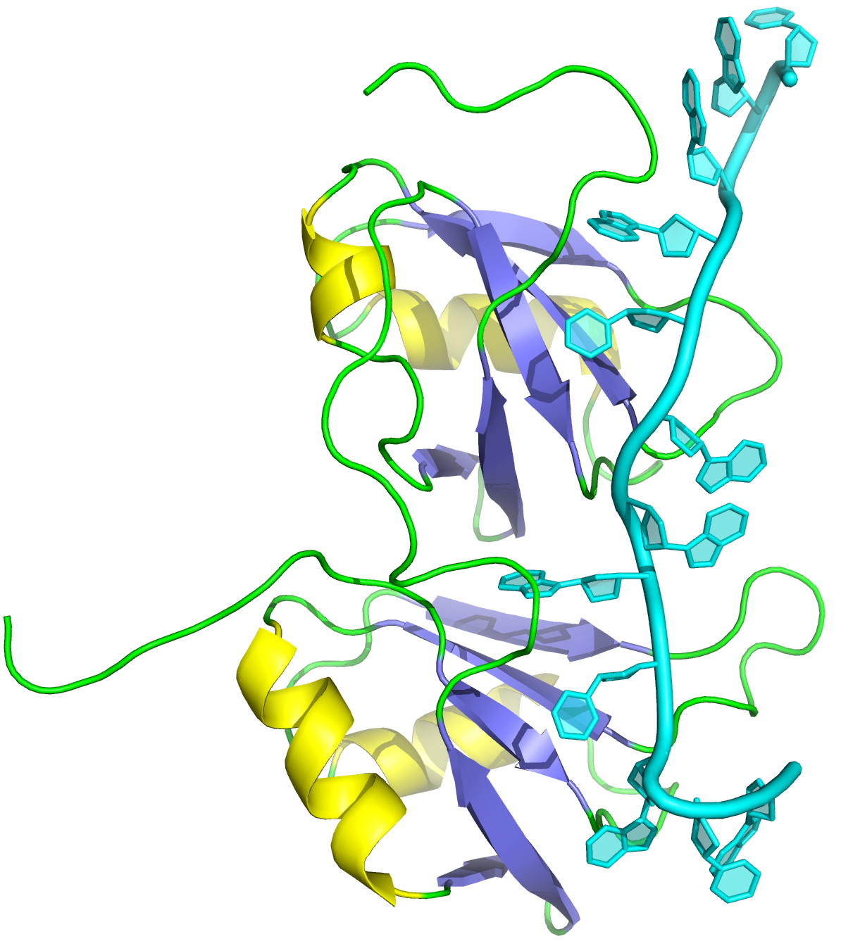 Tandem RNA-recognition motifs in human TDP-43, modelled using PyMol, PDBID:4BS2, RNA in cyan, helixes yellow, beta-sheets in slate